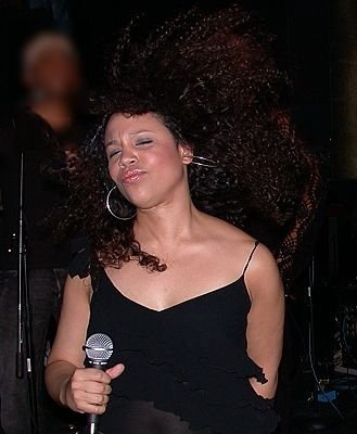 New York City live performance